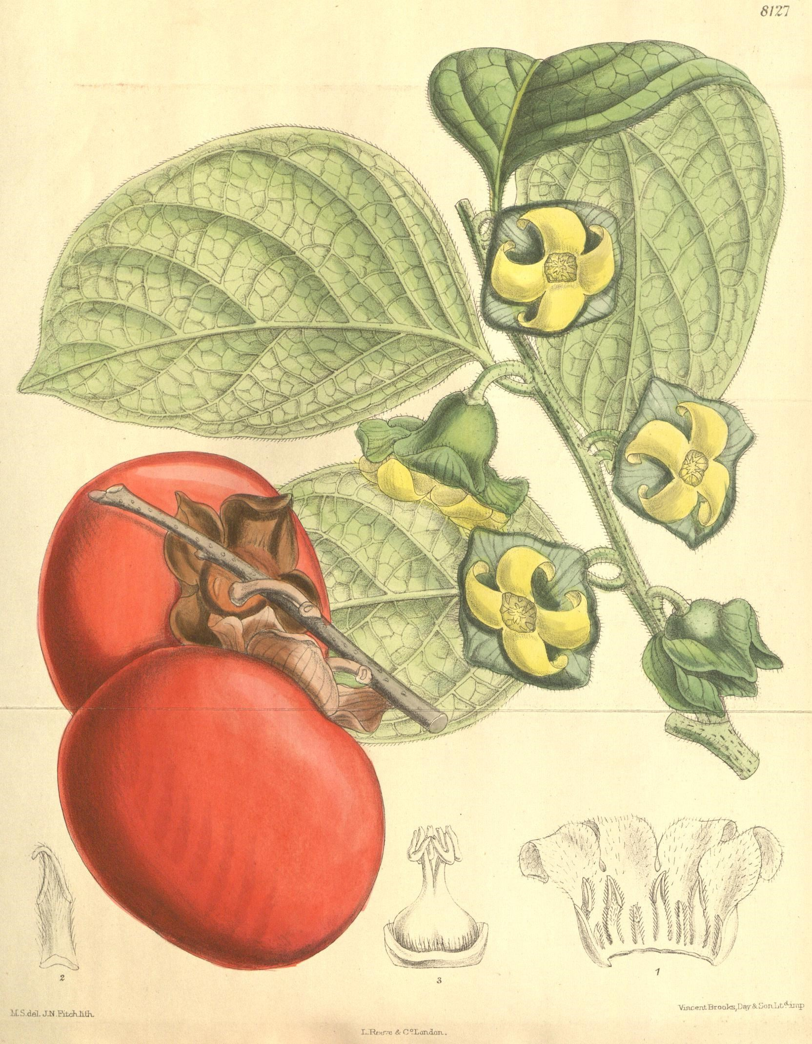 8121 ohJith. VSw^ntBtodJotD^r&SonitfiitT I. .Hit..; & C°Lan.icm.